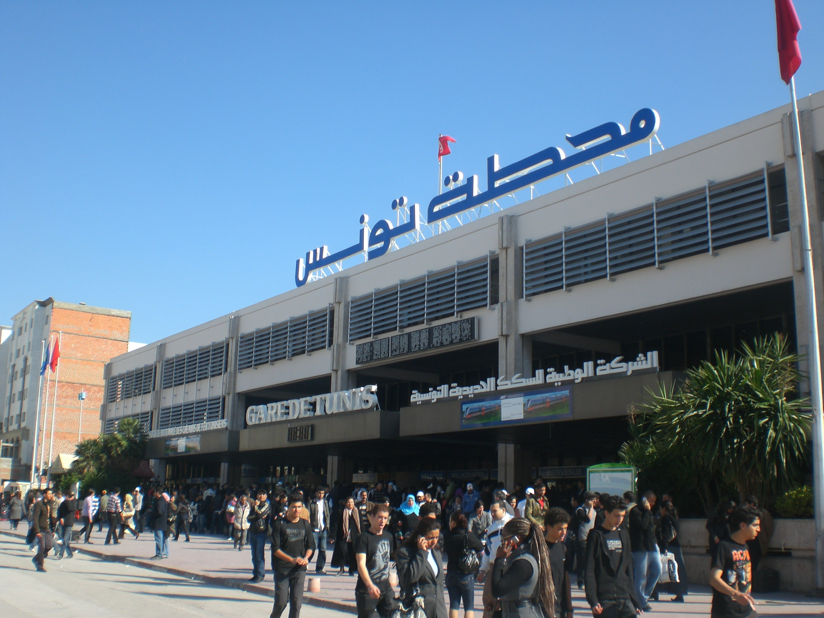 The train station of Tunis